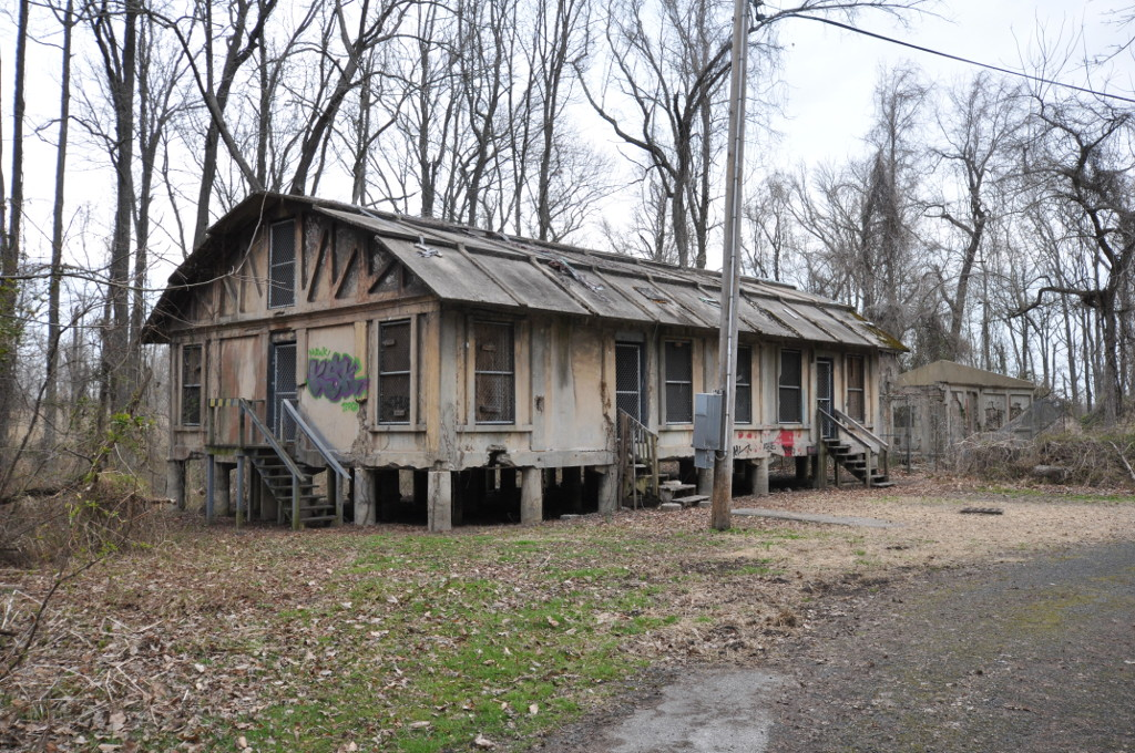 Fake Vietnamese village building (used for training) at Fort Howard, Maryland.